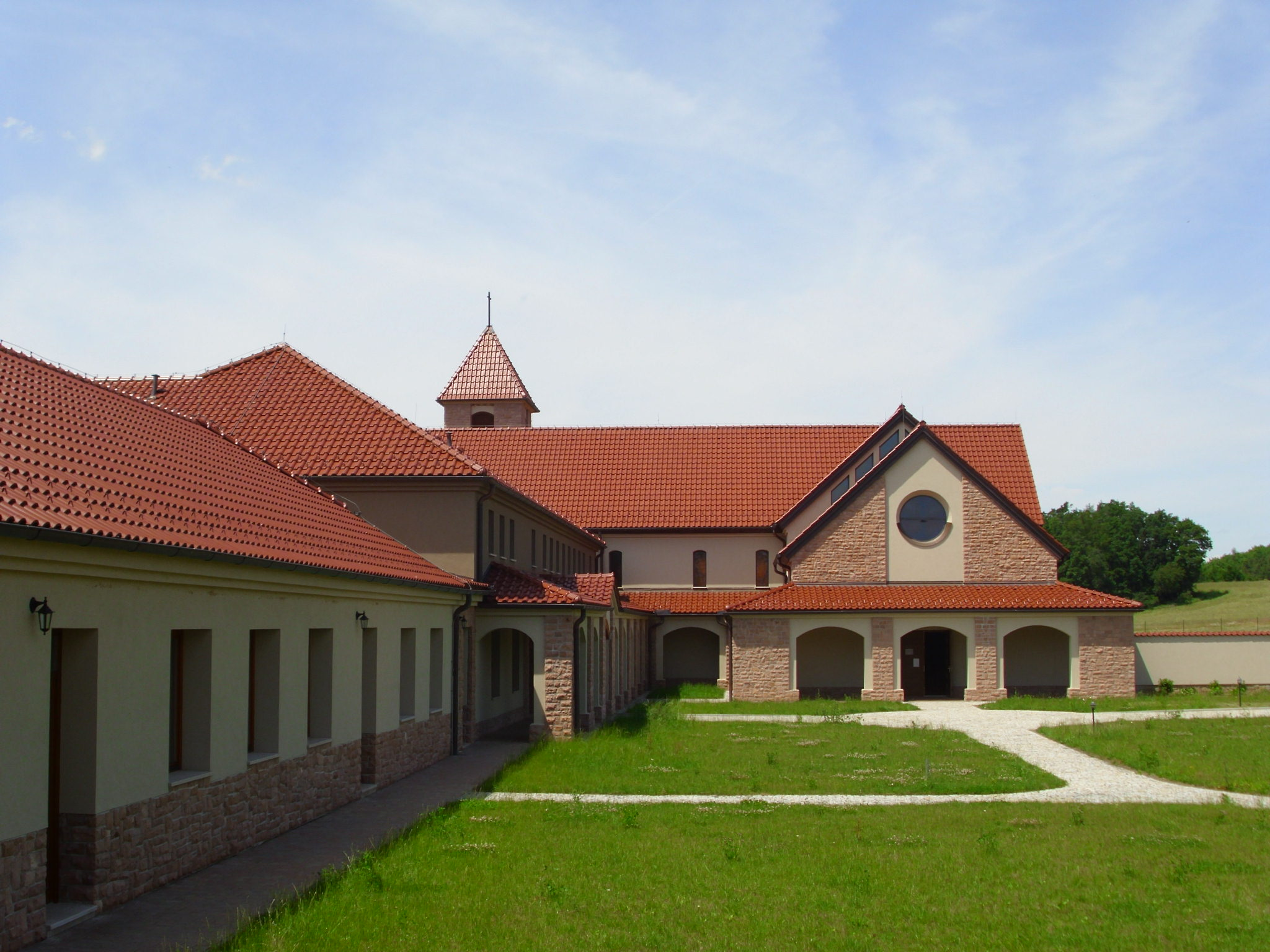 Church of Our Lady in Trappist Monastery of Our Lady upon Vltava (Poličany village, Benešov District, Central Bohemian Region, Czech Republic)